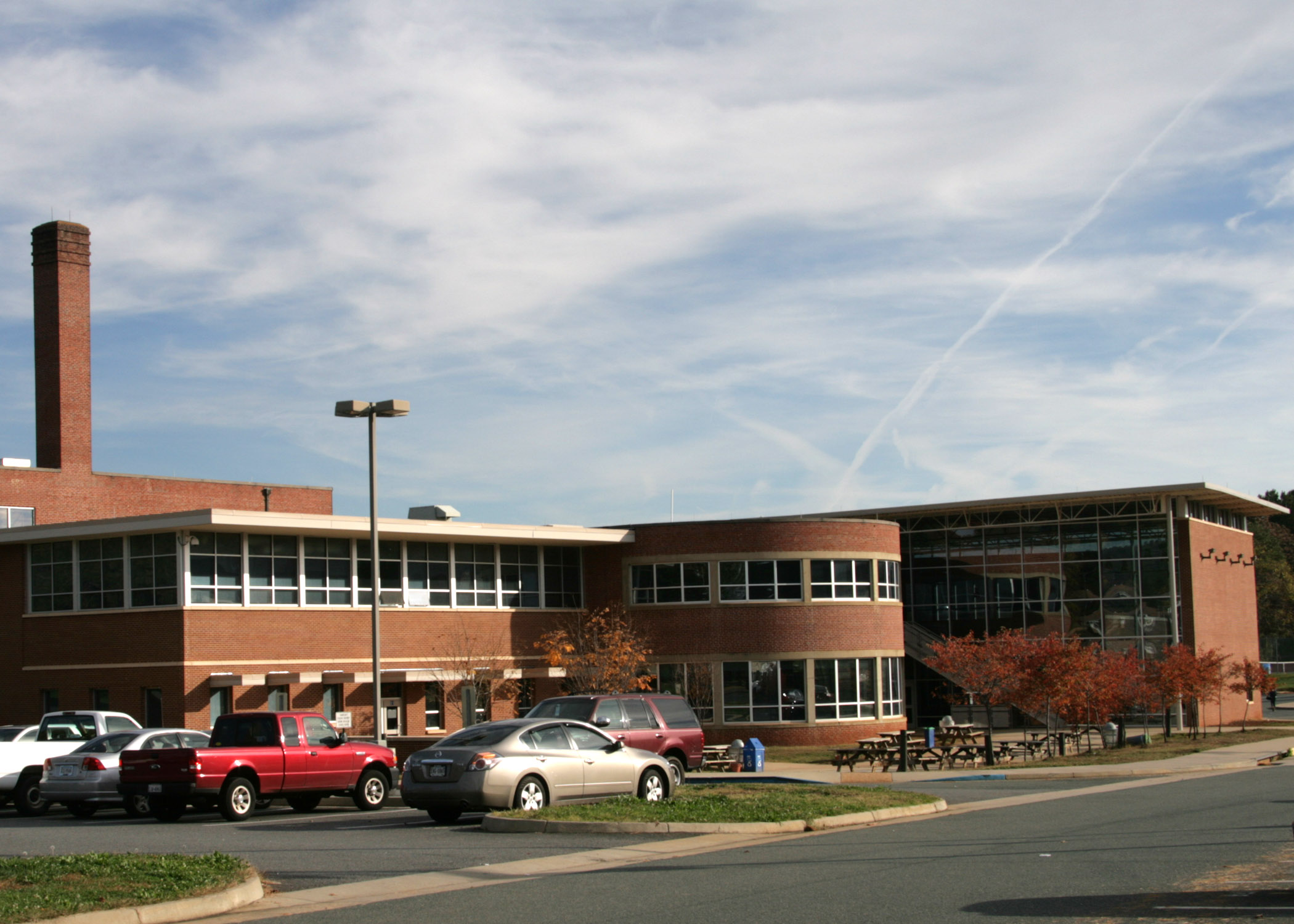 Orange County High School as seen from front parking lot. Orange, Virginia, United States.